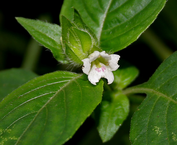 Asystasia mysorensis (Roth) T. Anderson(syn. Asystasia schimperi T. Anderson) at Ananthagiri Hills, in Rangareddy district of Andhra Pradesh, India.